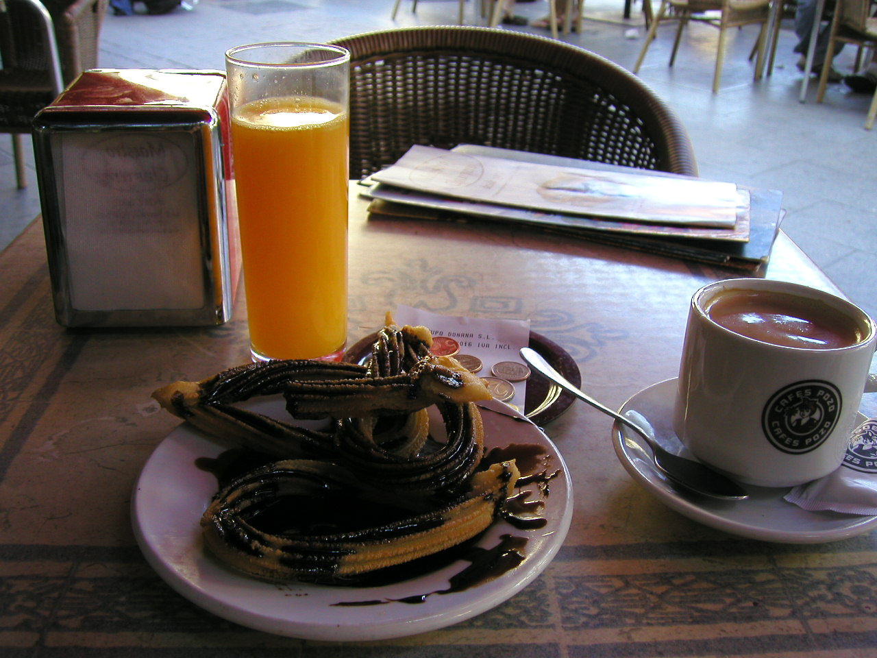 Breakfast in Madrid. Churros con chocolate, cafe con leche and orange juice.